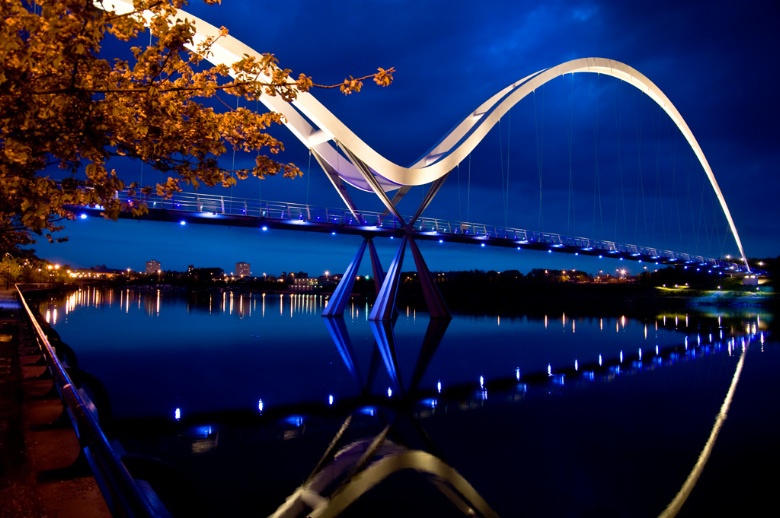 The Infinity Bridge is a public pedestrian and cycle footbridge across the River Tees in the borough of Stockton-on-Tees in the north east of England Original description:Took this series at about 9.30, just after sunset.